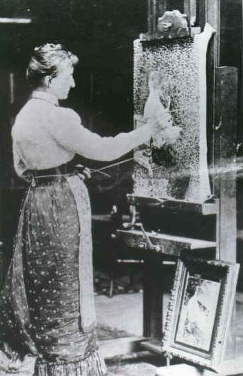 Portrait of Anna Boch in her Atelier